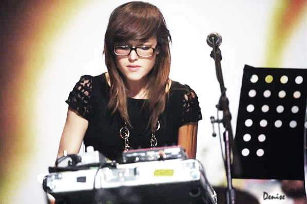 Denise gutierrez (In Cumbre Tajín 2011)